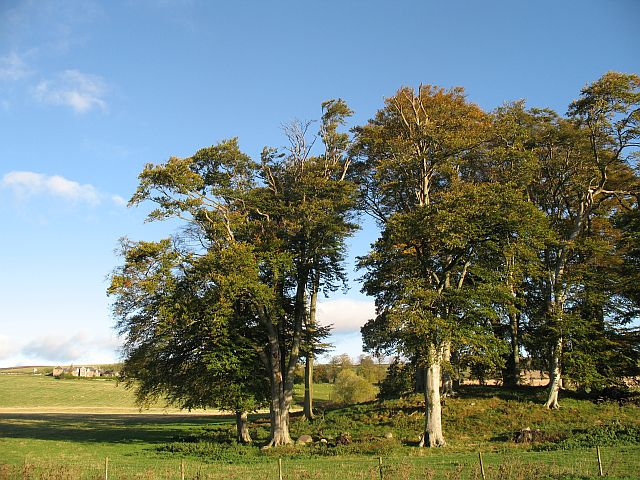 Cairn, New Fowlis A large mound covered in beeches.